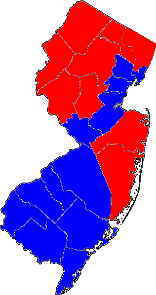 1990 New Jersey Senate election results by county.